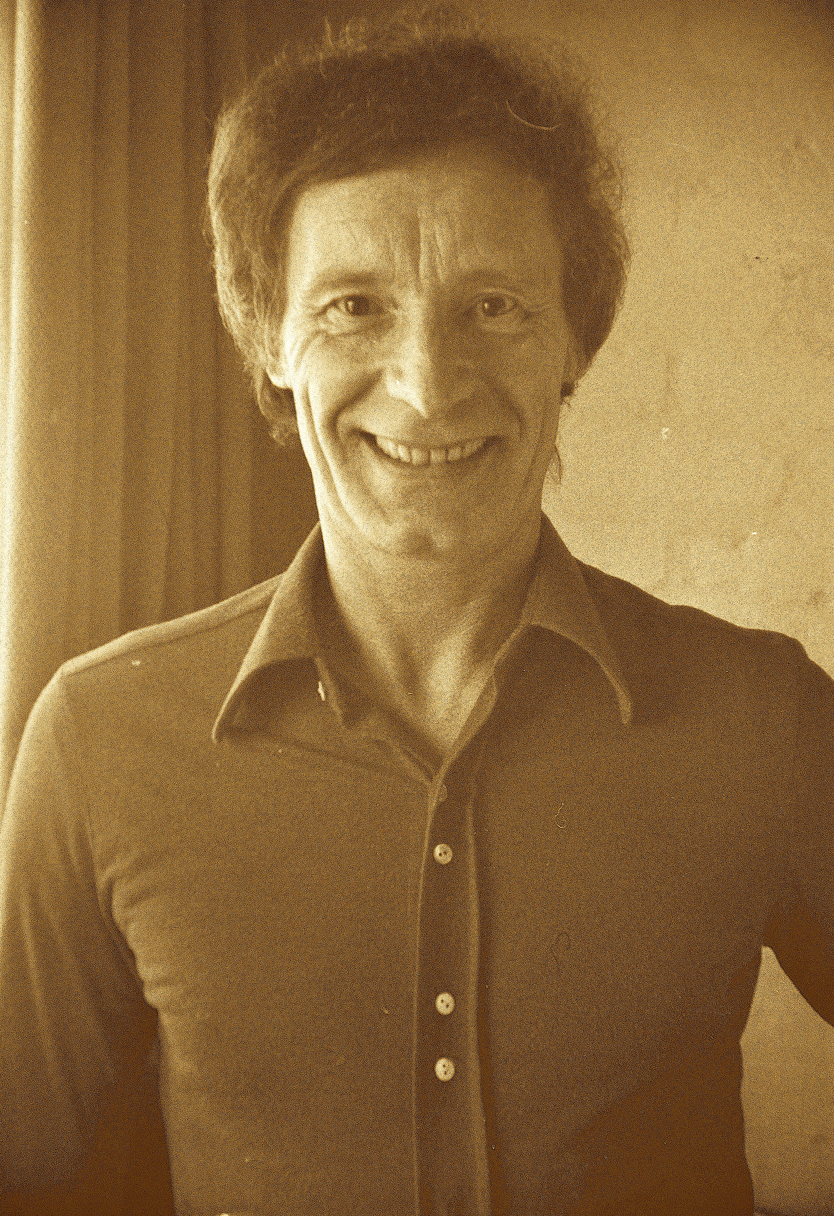 Louis Frémaux in Cape Town (1975)